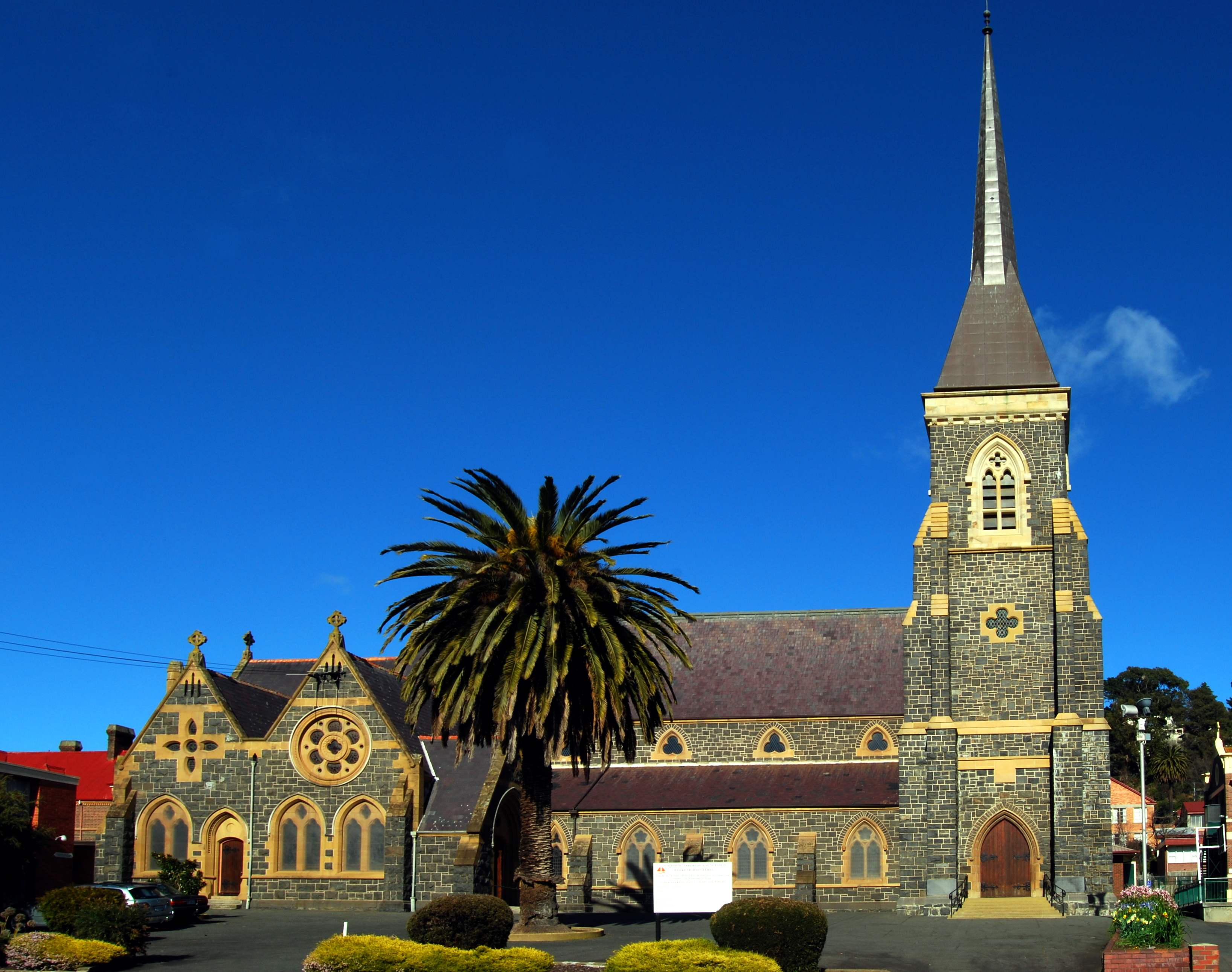 Church of the Apostles Roman Catholic church - Launceston, Tasmania, Australia